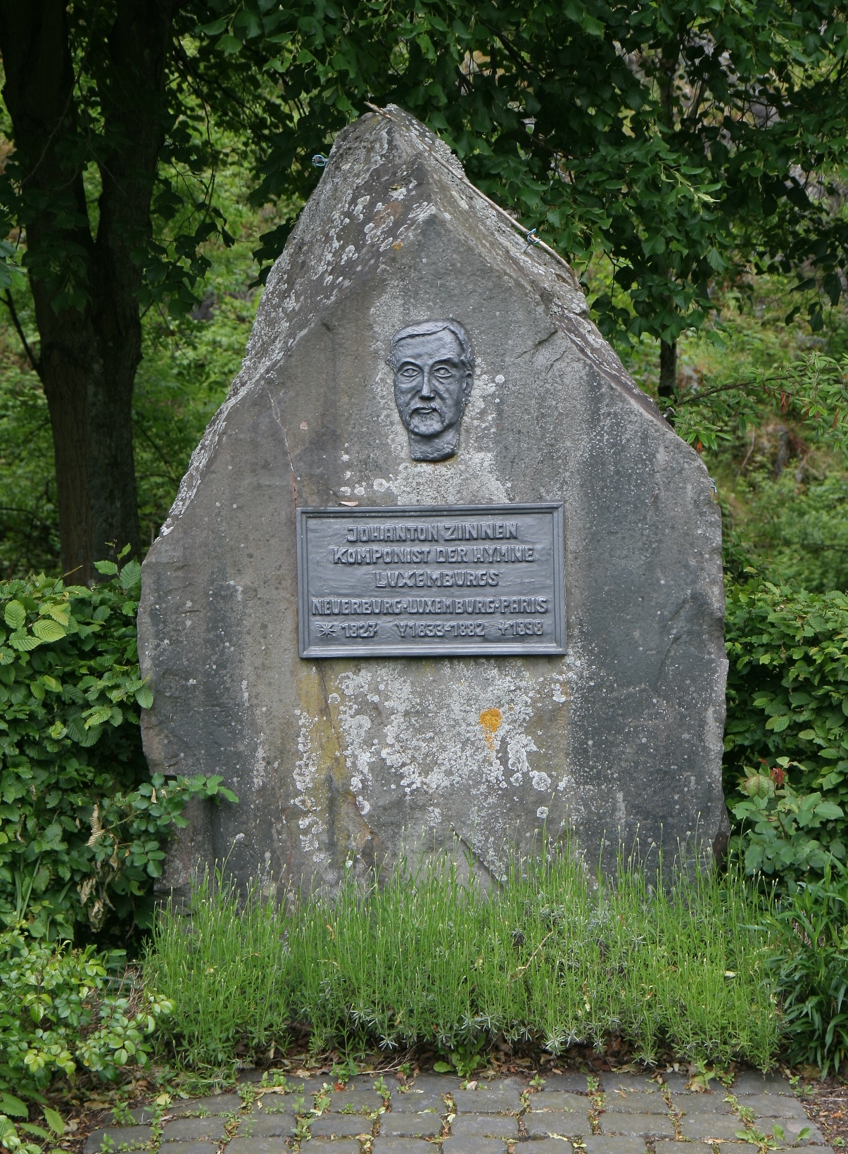 A monument to Luxembourger composer Jean-Antoine Zinnen (1827–1898), best known for Luxembourg's national anthem Ons Heemecht, near his birthplace in Neuerburg, Rhineland-Palatinate, Germany